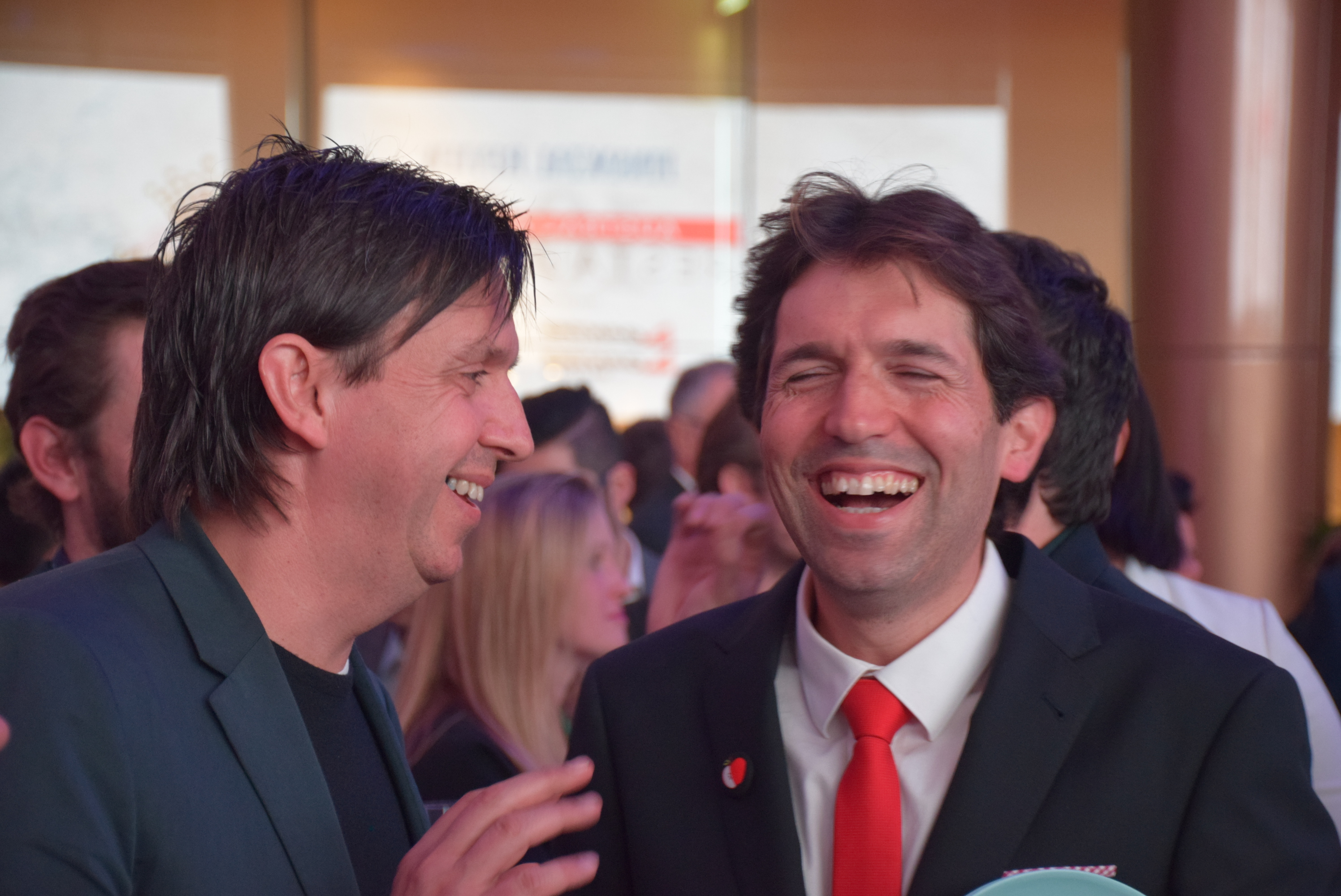 Chef's Andrew McConnell (Cumulus Inc, Cutler & Co, Supernormal) and Ben Shewry (Atticus) enjoy a laugh after the awards. Both had restaurants in the top 10. Left to right:Chef's Andrew McConnell (Cumulus Inc, Cutler & Co, Supernormal) and Ben Shewry (Atticus) enjoy a laugh after the awards. Both had restaurants in the top 10.